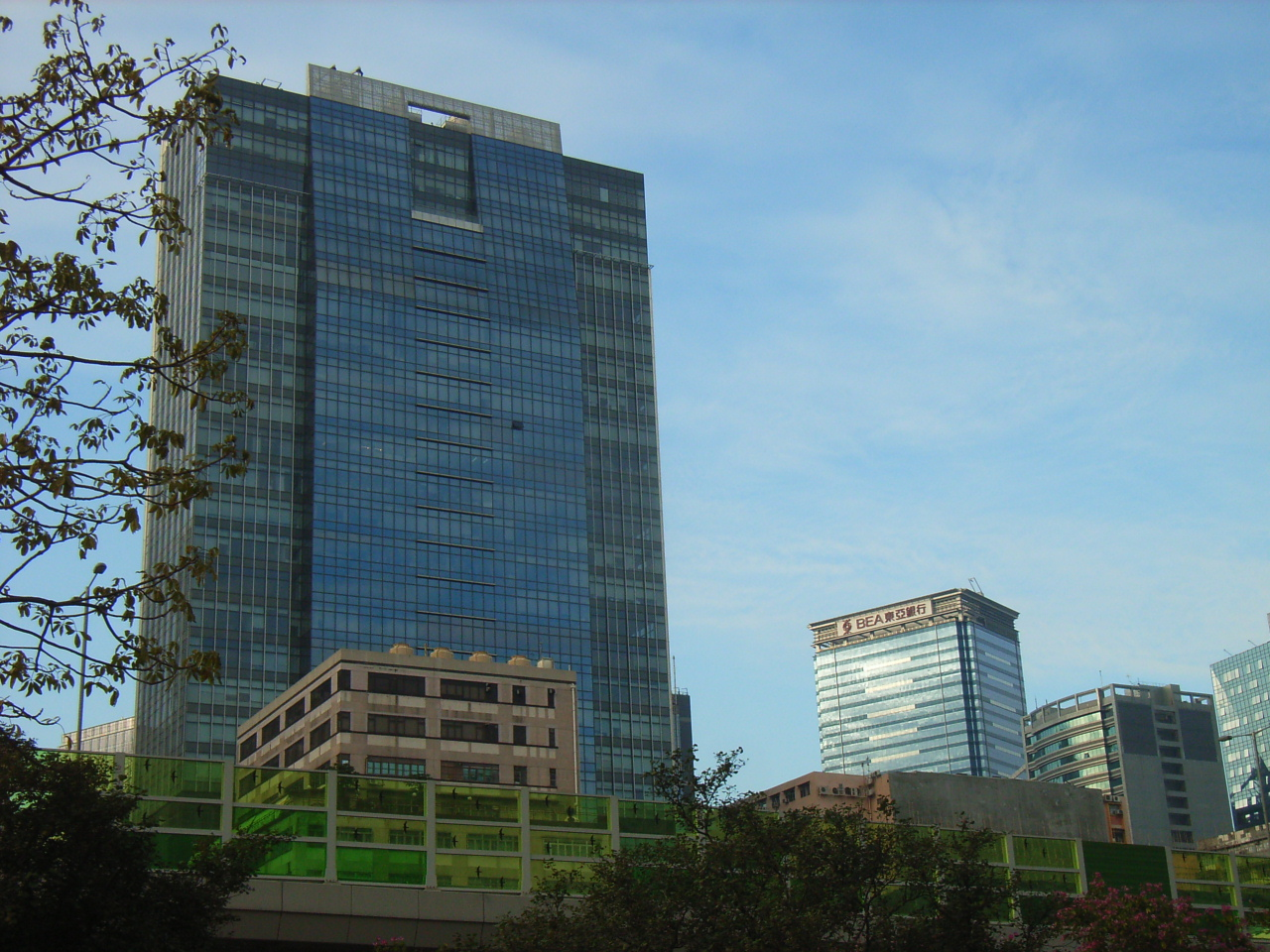 觀塘 麗港公園望zh:觀塘工業區的新建築物